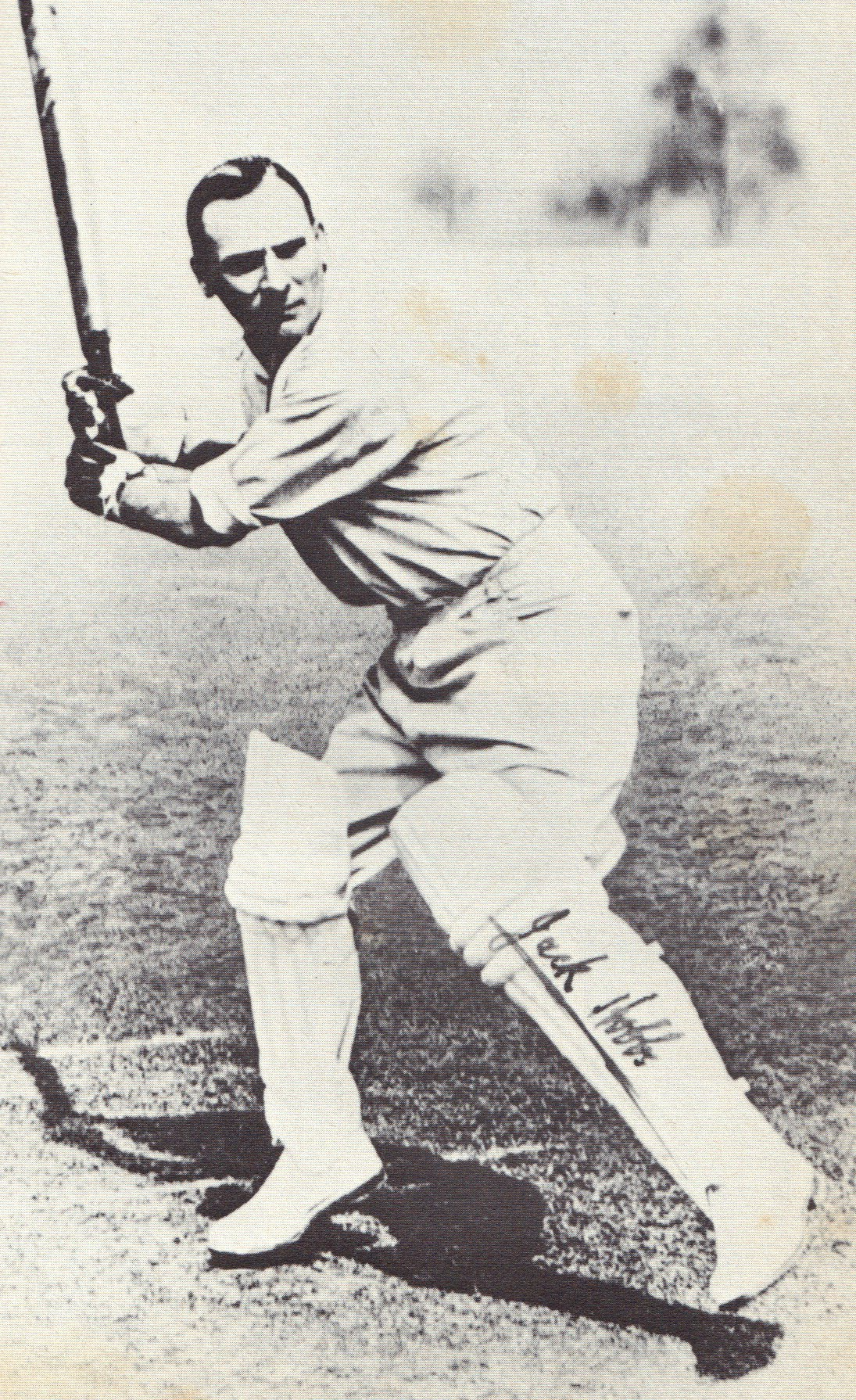 Jack Hobbs c.1925.